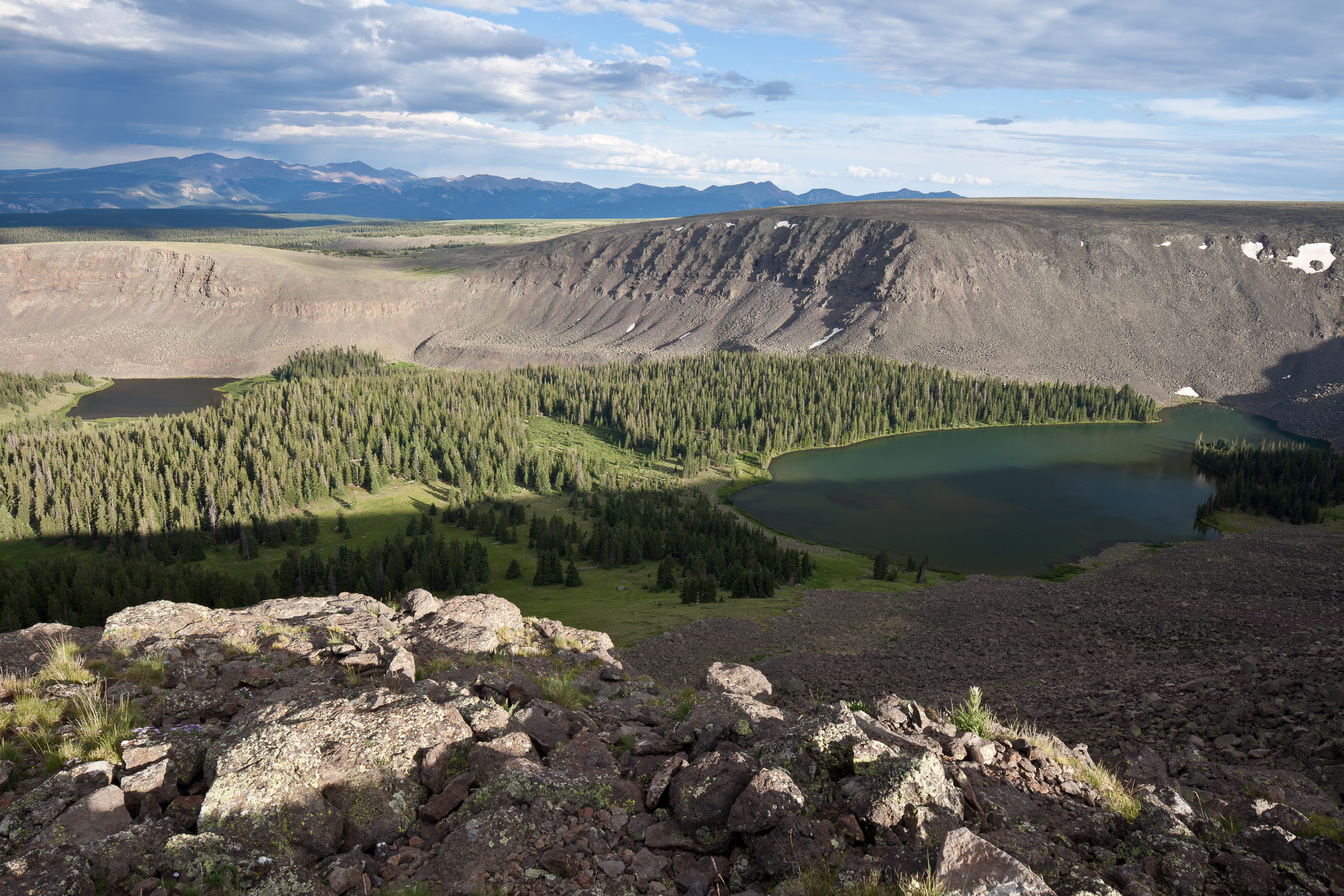 The Powderhorn Wilderness in Colorado is found in a rugged, glacier-carved landscape of the northern reaches of the San Juan Mountains. The area consists of large expanses of alpine tundra, spruce forests, and several alpine lakes at nearly 12,000 feet in elevation. Breathtaking views of the San Juan Mountains are available in this wilderness. Above 12,000 feet are two high-elevation plateaus that make up the largest relatively flat expanse of alpine tundra in the lower 48 states. These plateaus were created by Teritary volcanic deposits believe to be 5,000 feet thick in some areas. The Cannibal Plateau, Devil's Lake, the Powderhorn Lakes, and Powderhorn Creek are also intriguing features. Visitors can explore more than 45 miles of trails within this area, including Powderhorn Lakes Trail, East Fork Trail, Powderhorn Park Trail, Middle Fork Trail, and Devil's Creek Trail. Recreation activities include hiking, backpacking, camping, horseback riding, fishing, hunting, and photography. Learn more and plan your trip: Photo: Bob Wick, BLM California